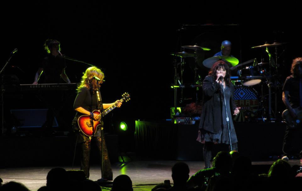 Heart at the Beacon Theater in New York City, 2012.